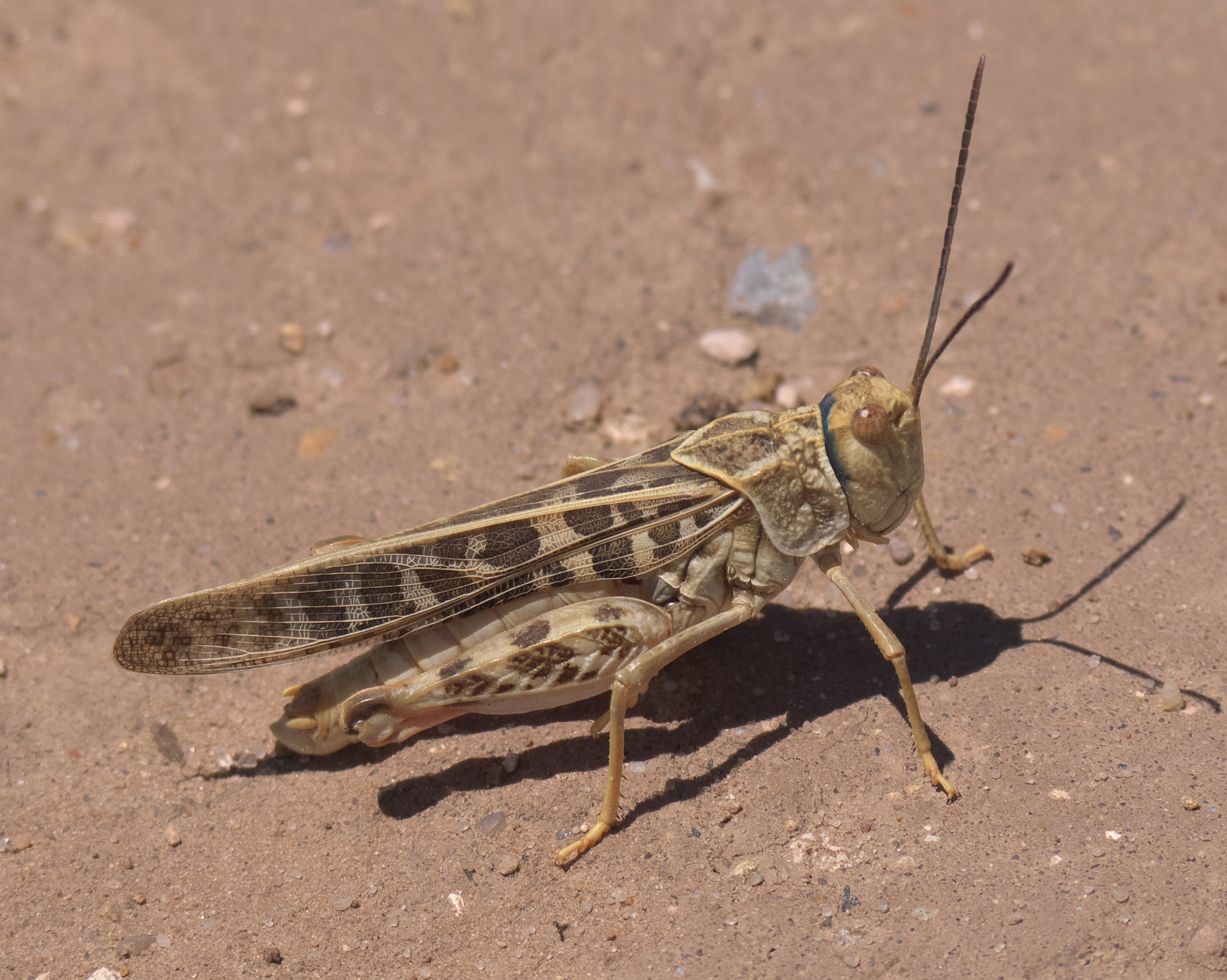 Xanthippus corallipes pantherinus, red-shanked grasshopper, ID Confidence: 88